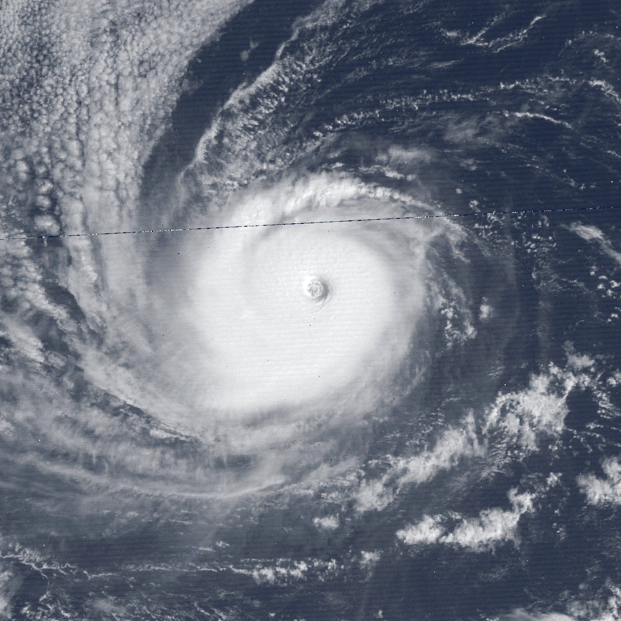 Hurricane Norbert on September 20, 1984 at 17:45 UTC.